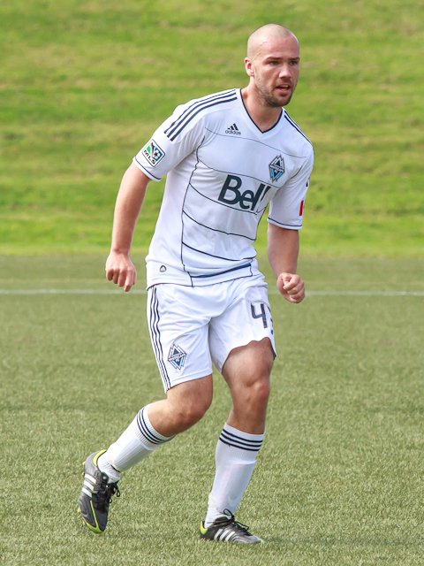 Jacob Lensky, Vancouver Whitecaps FC Reserves v San Jose Eathquakes Reserves, 10 September 2012